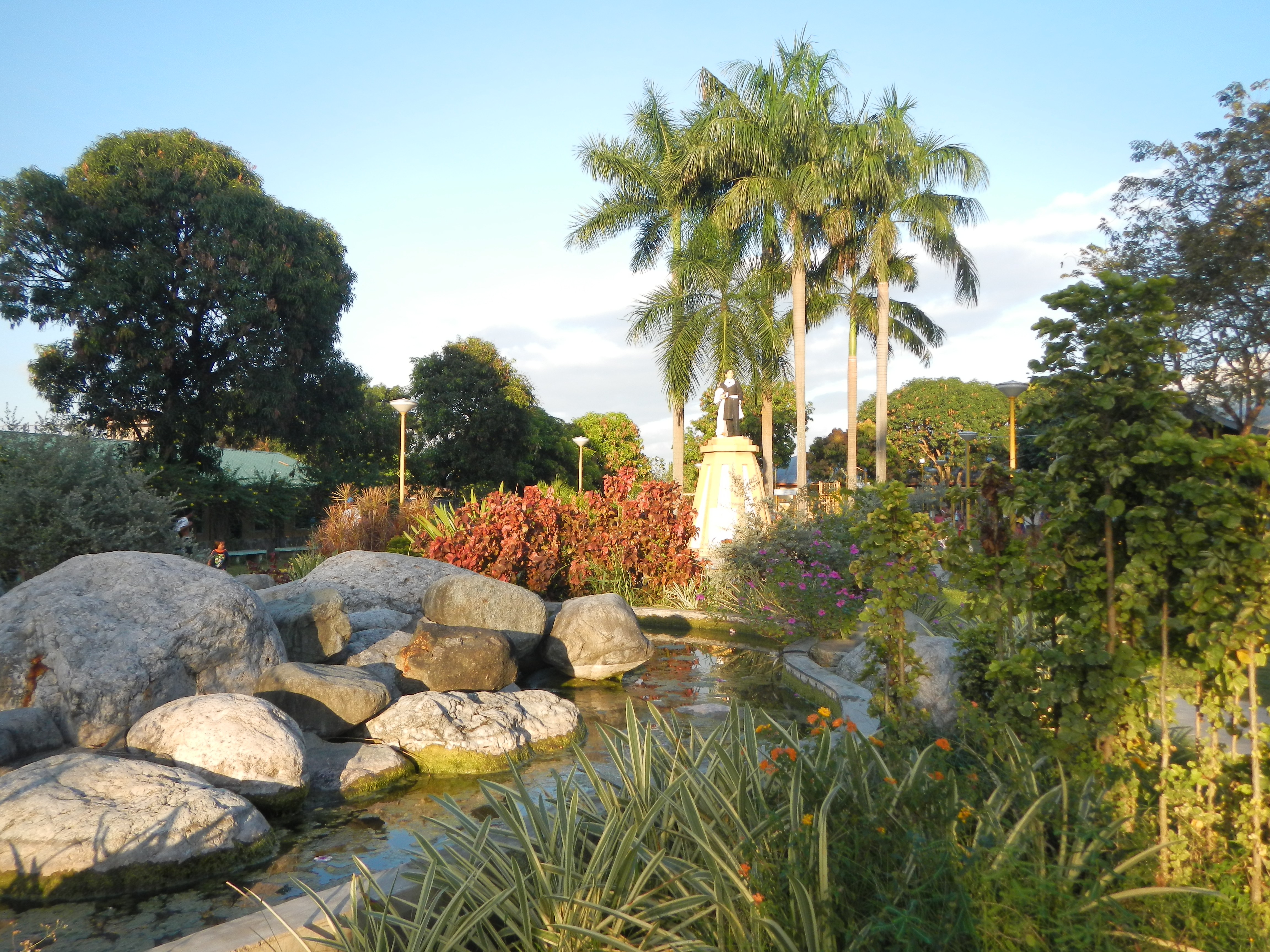 Villasis, Pangasinan[1] [2][3]